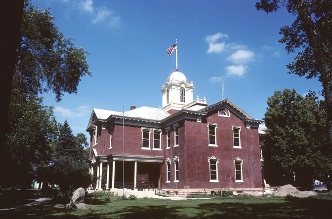 The Kingsbury County Courthouse, located along Highway 25 in De Smet, South Dakota, United States. Built in 1898, it is listed on the National Register of Historic Places.